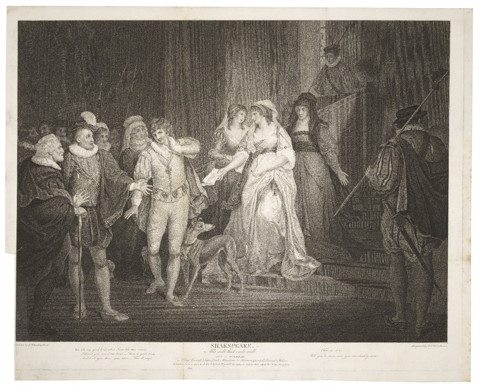 A 1794 print of the final scene of All's Well That Ends Well.